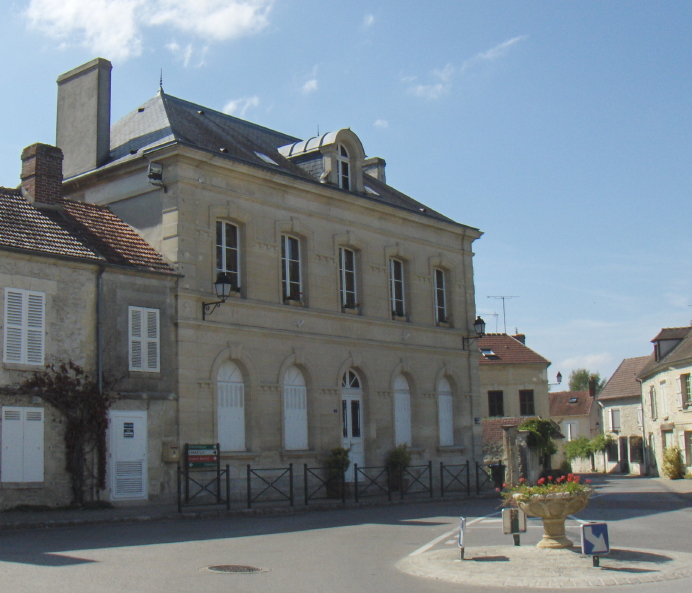 Town hall of Avilly-Saint-Leonard, Oise, France